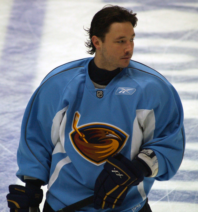 Ilya Kovalchuk warms up before facing Florida Panthers Feb. 4, 2006.